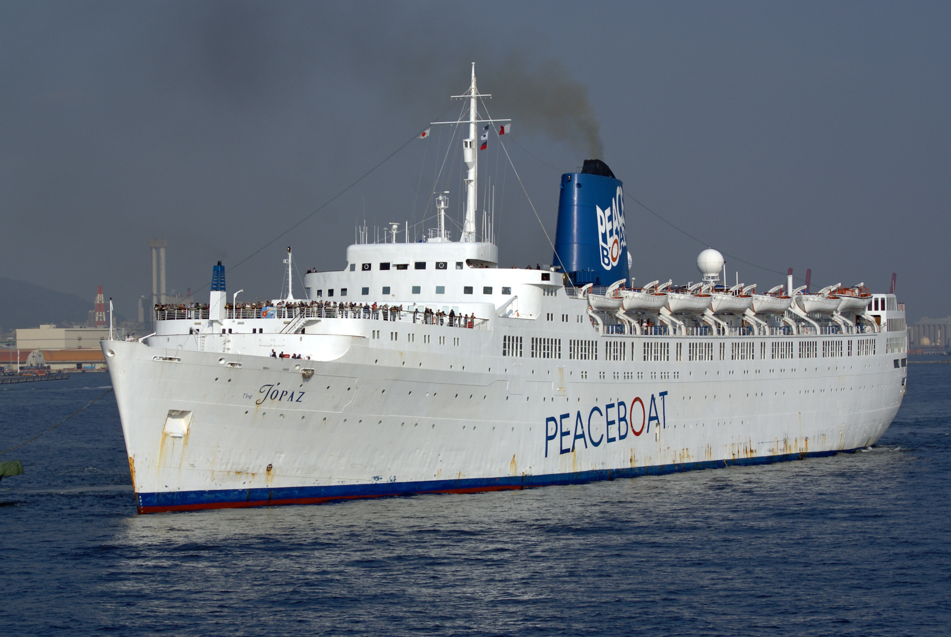 TOPAZ at Kobe Port Terminal of the Kobe harbor ( Kobe, Hyogo, Japan)